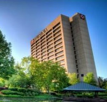 Nestlé Purina PetCare Headquarters